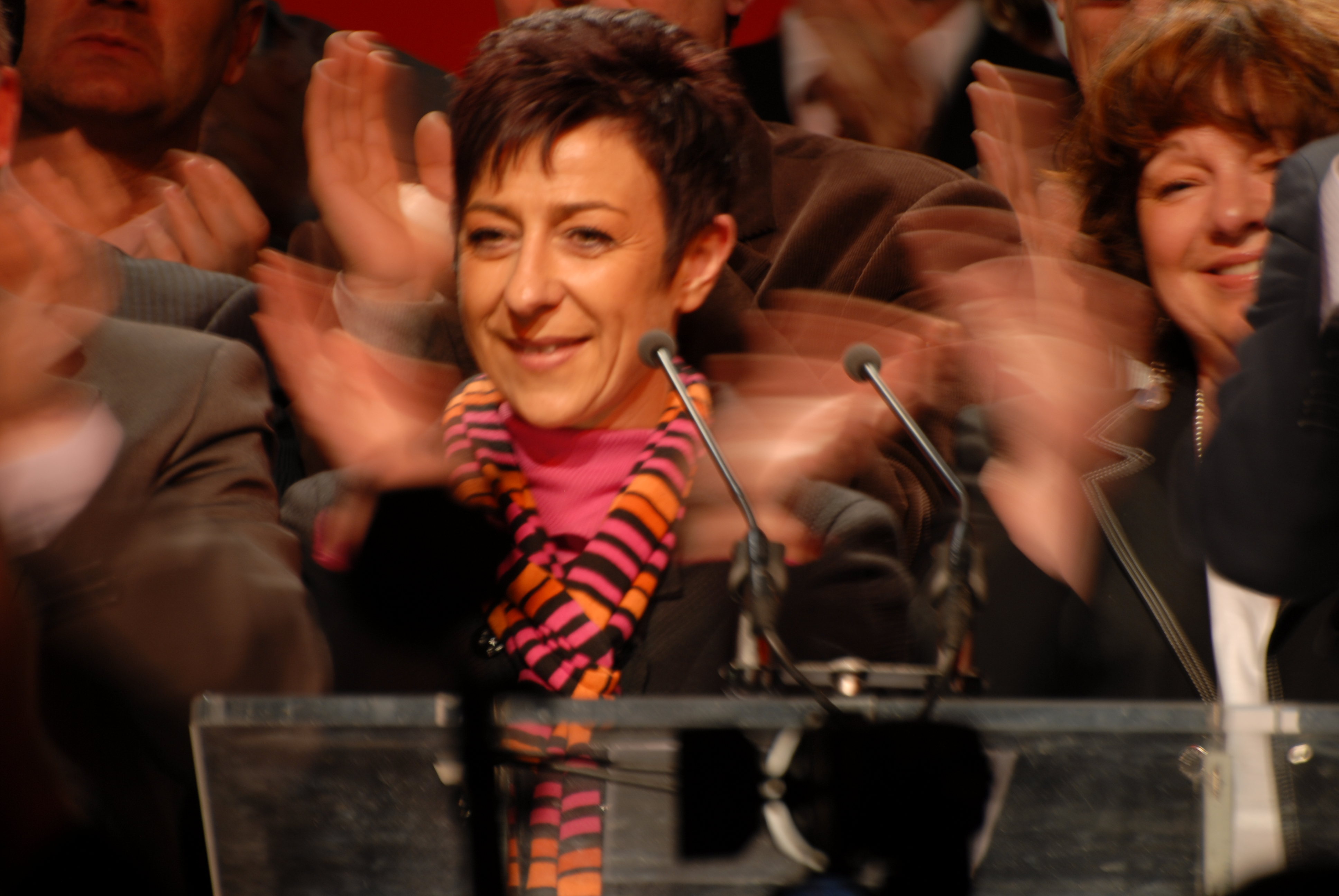 French representative Catherine Lemorton supporting Pierre Cohen's candidacy for the French town elections in Toulouse, 2008.